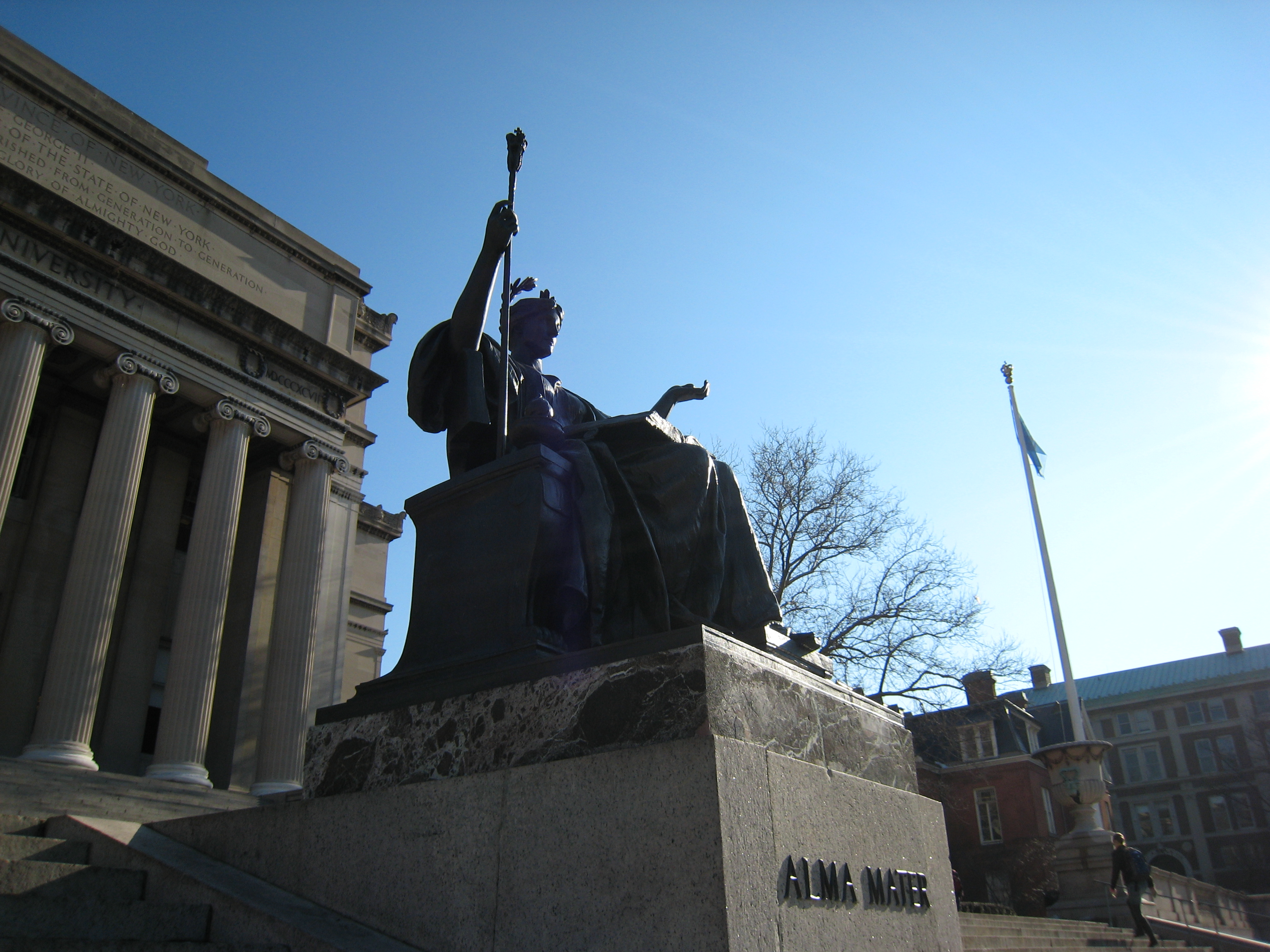 The Alma Mater sculpture, at the steps of the Low Library at Columbia University